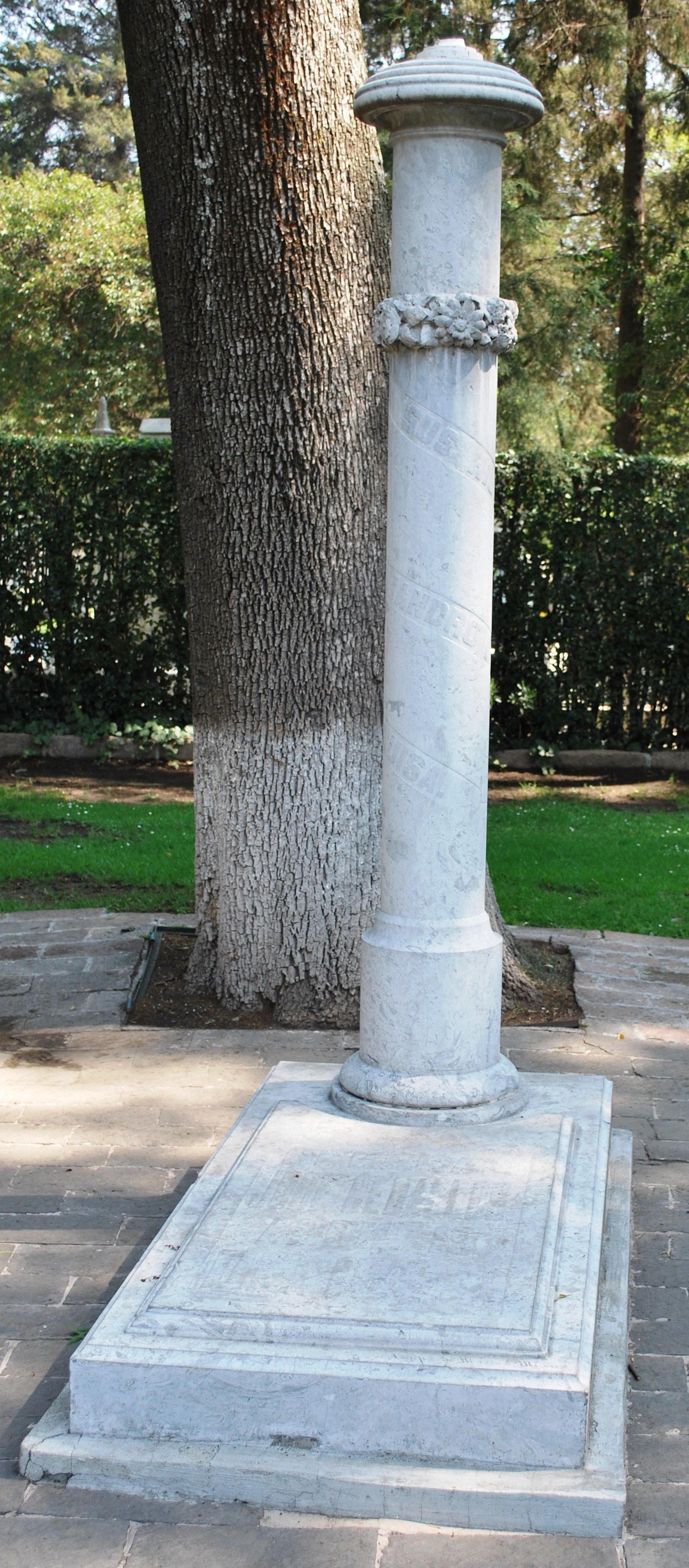 Tomb of General Jose Ceballos at the Panteon Civil de Dolores cemetery in Mexico City